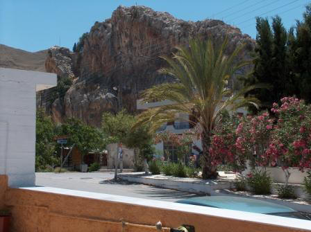 The rock of HarakasUnknown